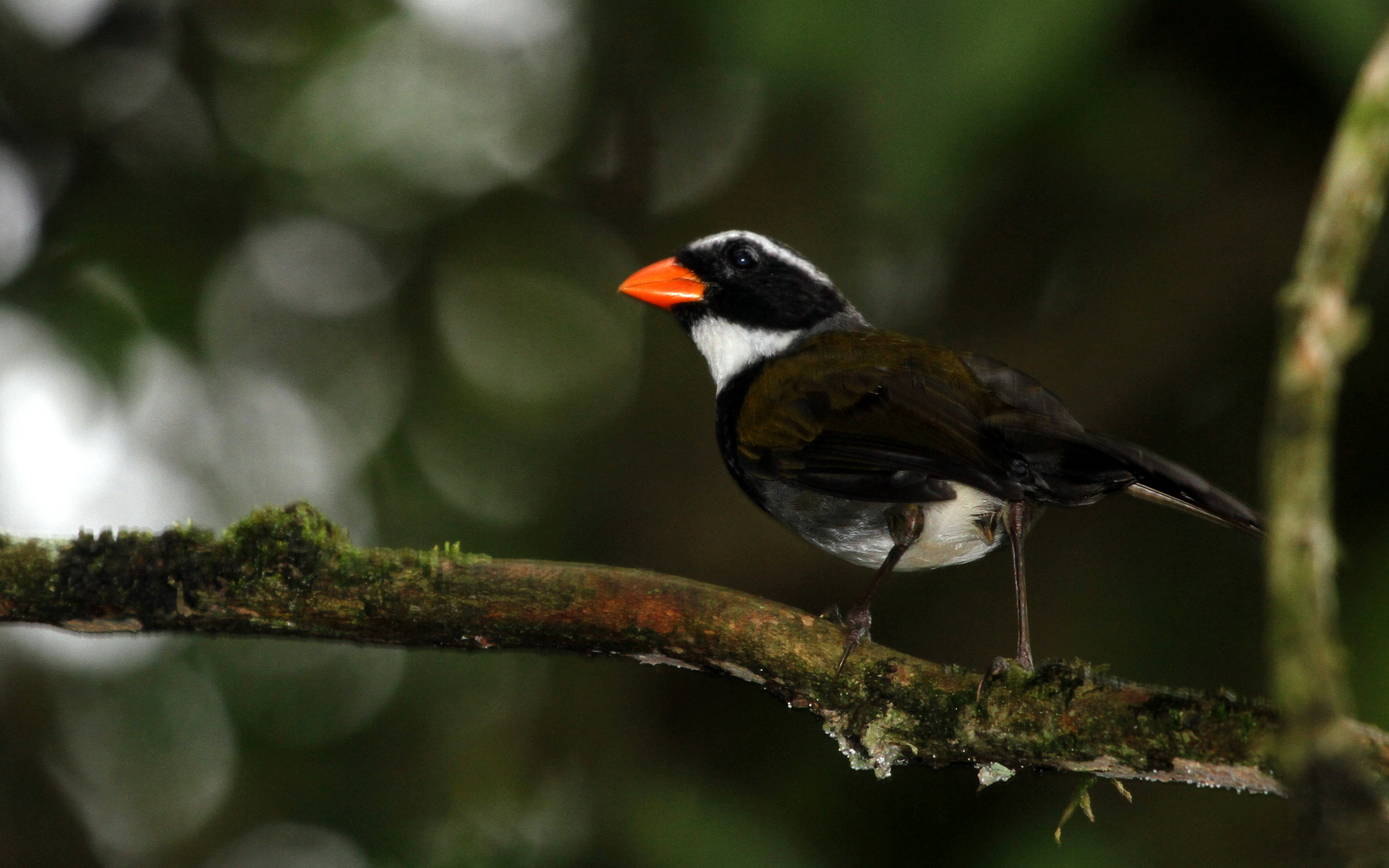 Orange-billed Sparrow